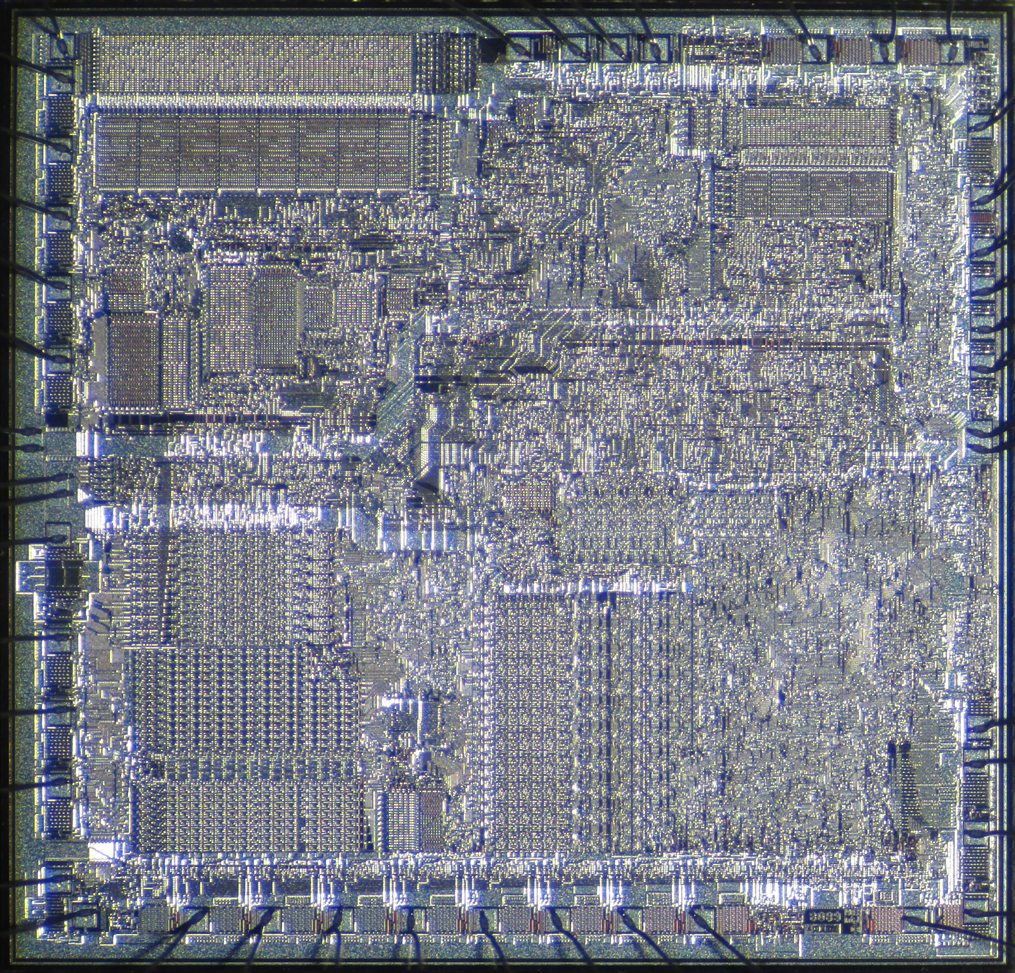 Die shot of Intel 8089 I/O processor (D8089A-3).